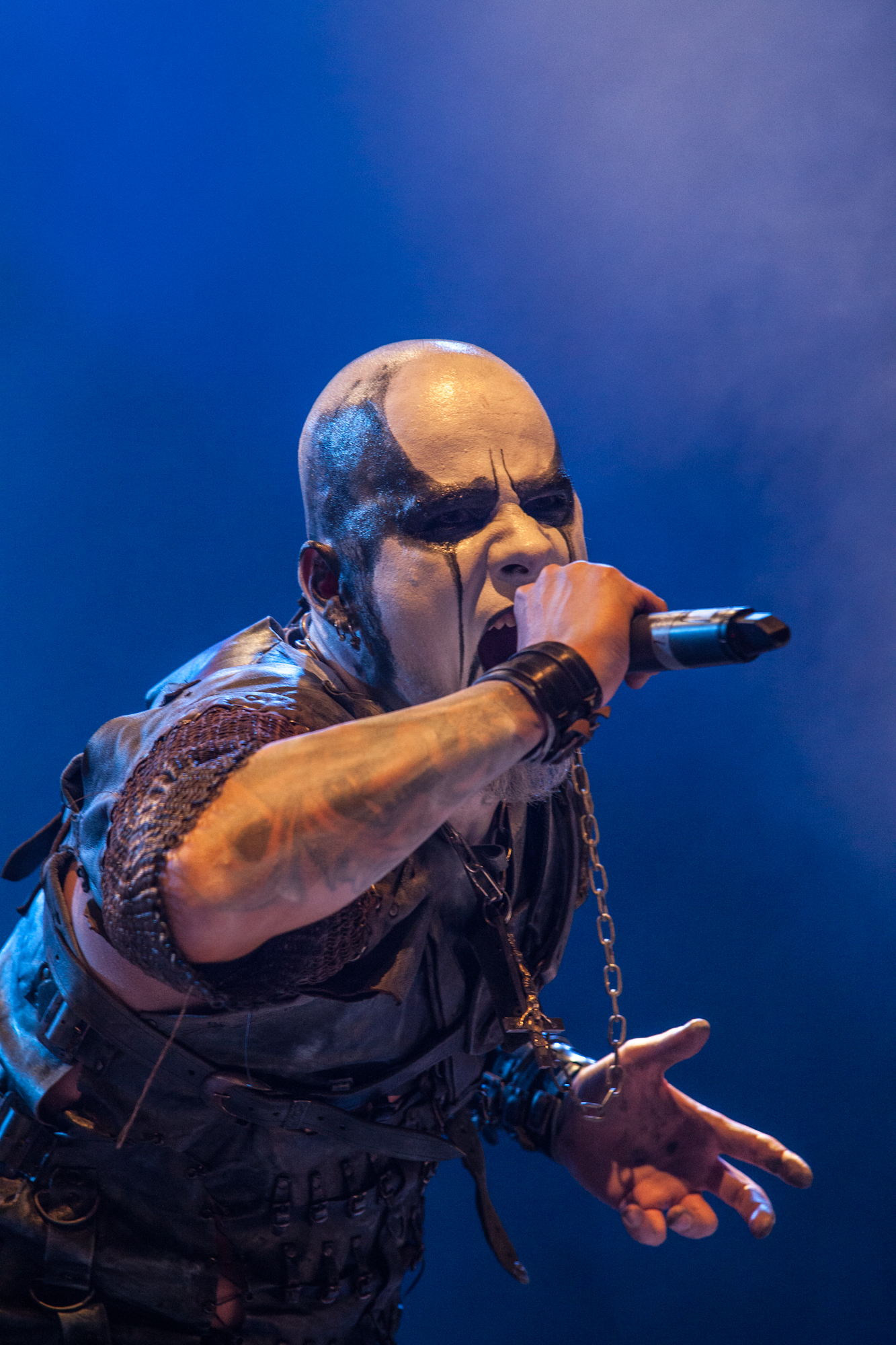 Nachtgarm, vocalist of Dark Funeral, performing live at Rockstad Falun 2012.